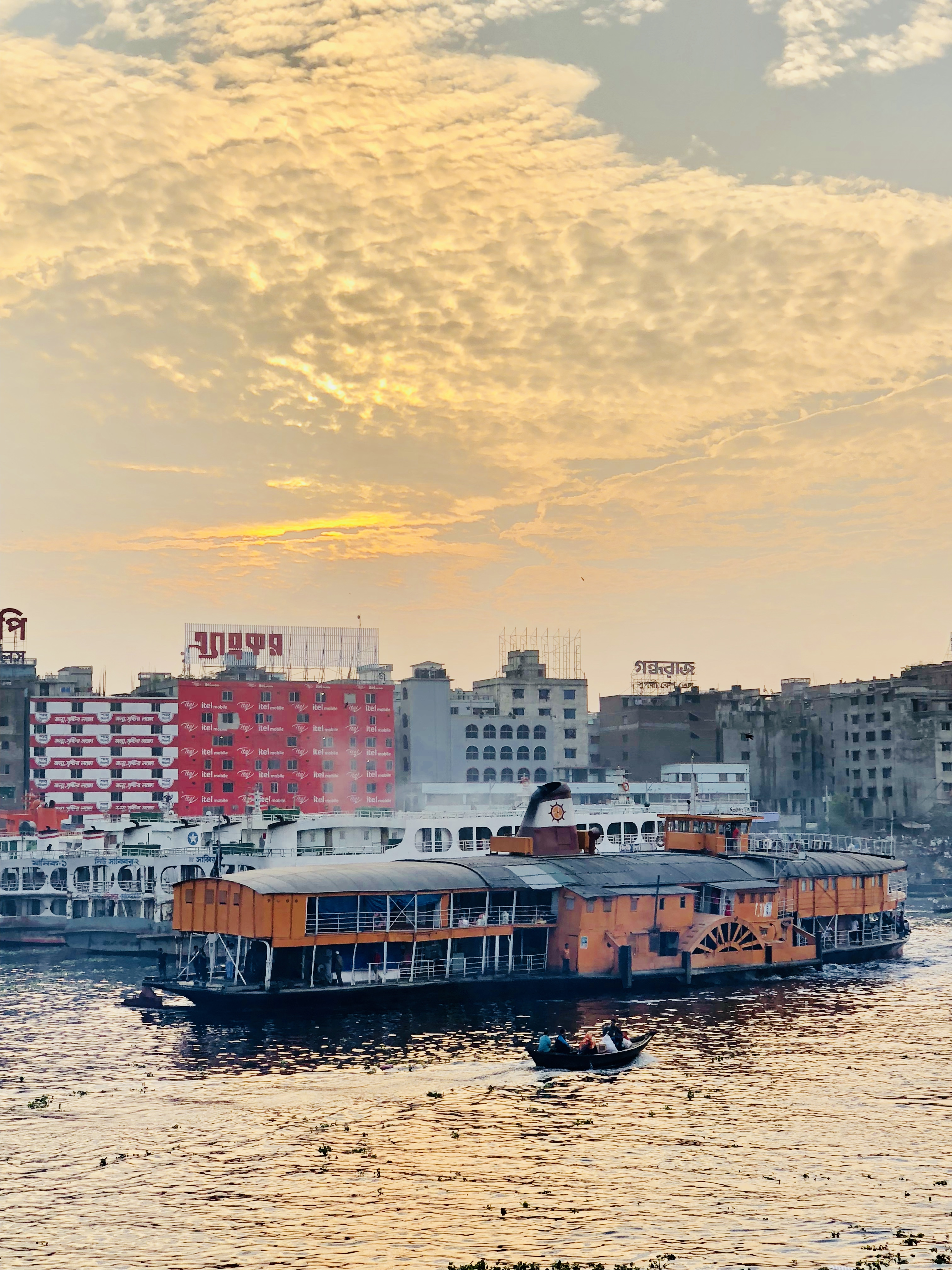 Sadar Ghat Launch Terminal Dhaka